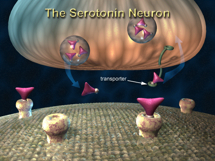 Part of a series of slides created by the National Institute on Drug Abuse about MDMA.